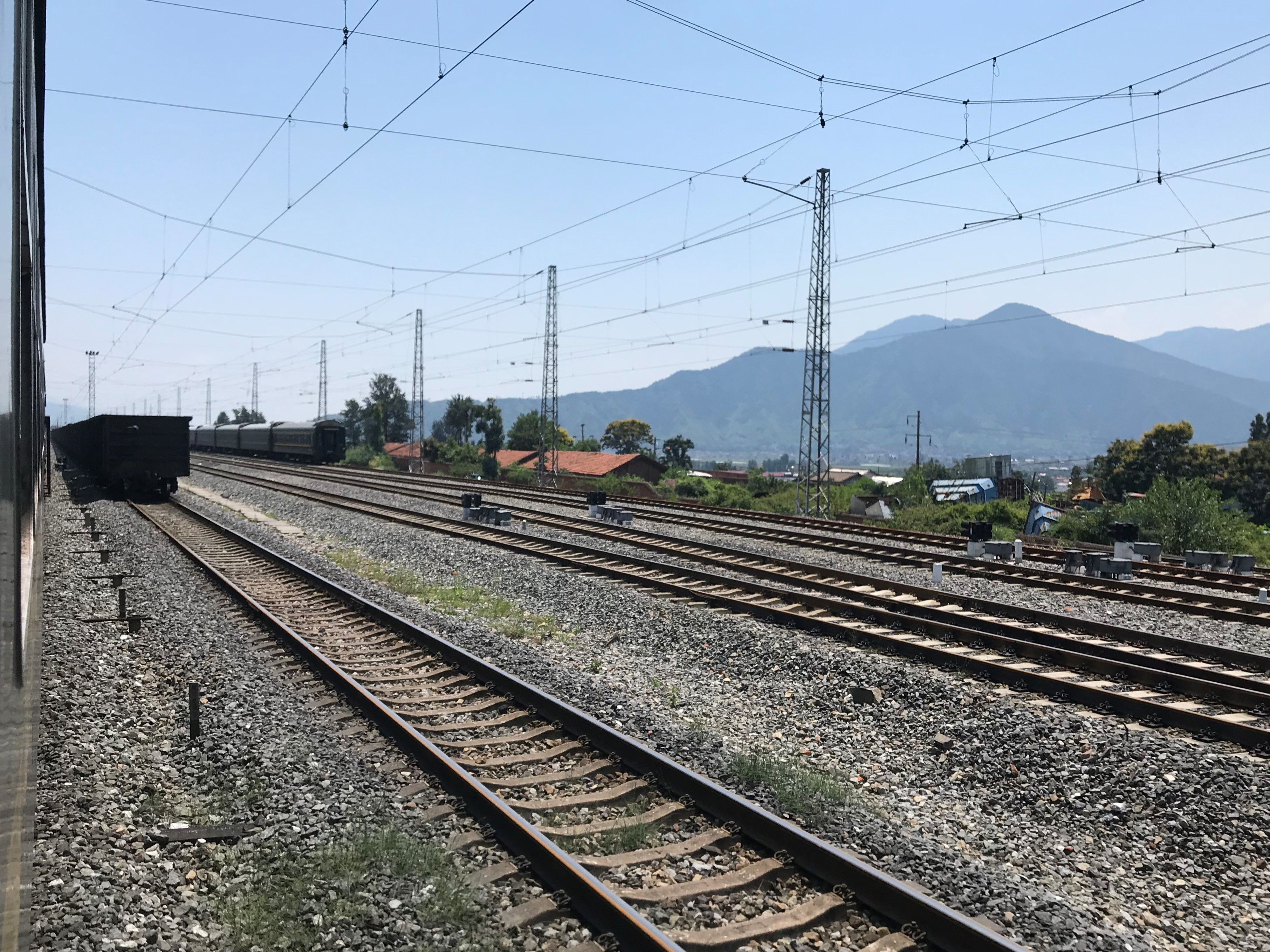 201908 Tracks at Manshuiwan Station